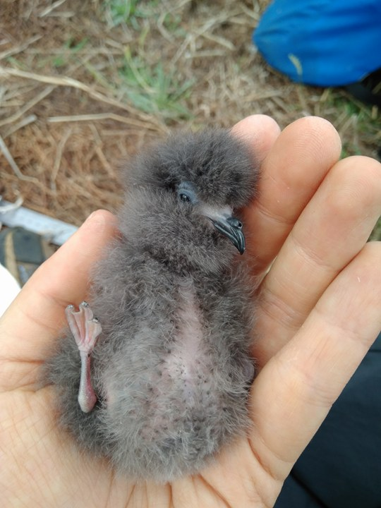 Chick of Monteiro's Storm Petrel on Praia Islet, Graciosa Island, Azores